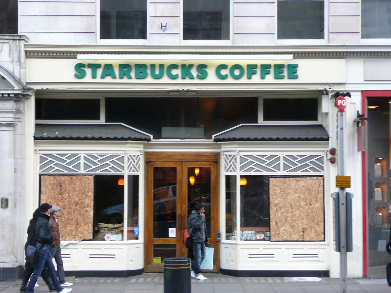 A boarded up Starbucks in Piccadilly, London, 18 January 2009. The windows were smashed by protesters following a Stop the War Coalition rally in Trafalgar Square.